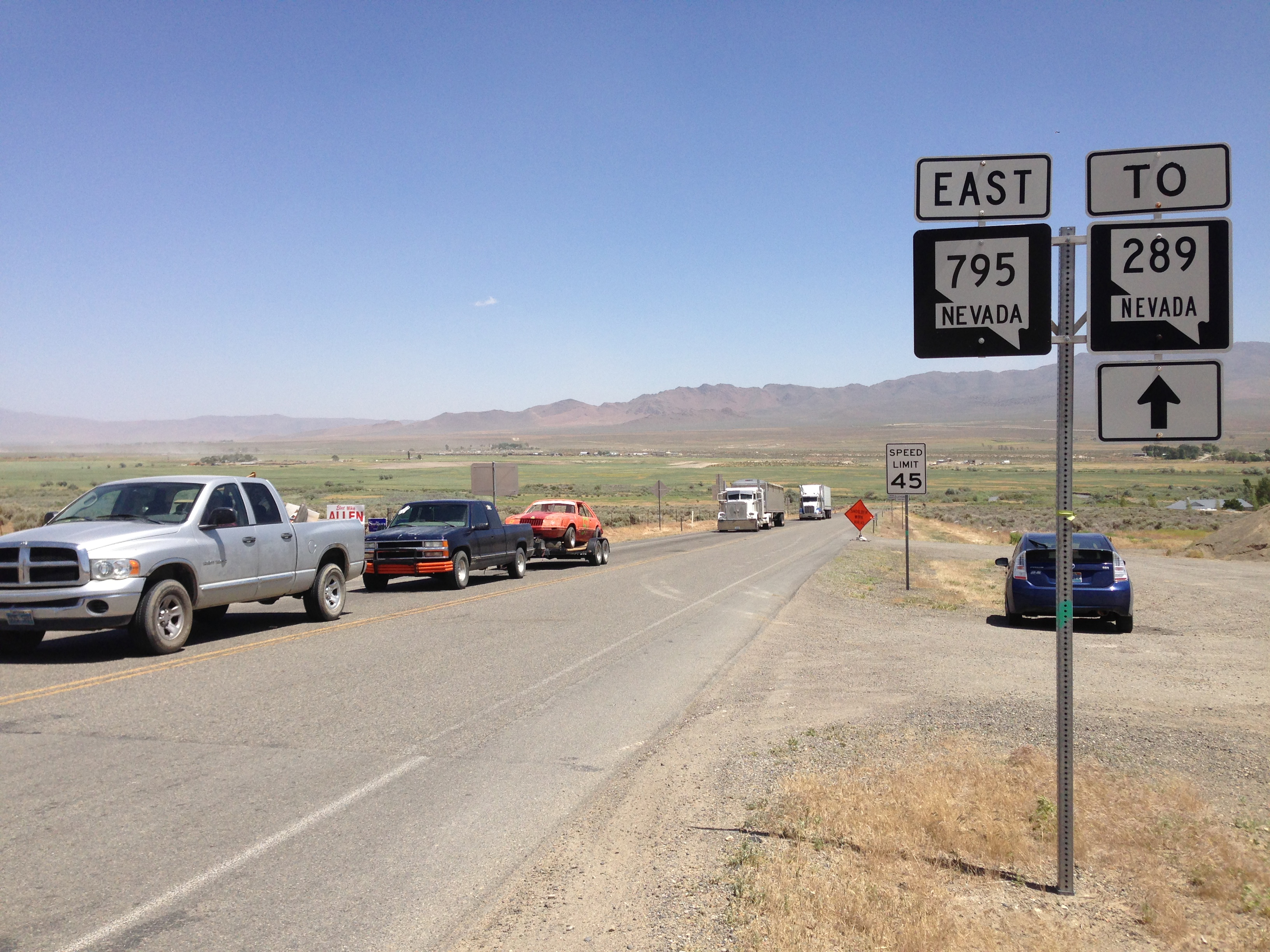 View east from the west end of Nevada State Route 795 (Reinhart Lane) in Winnemucca, Nevada